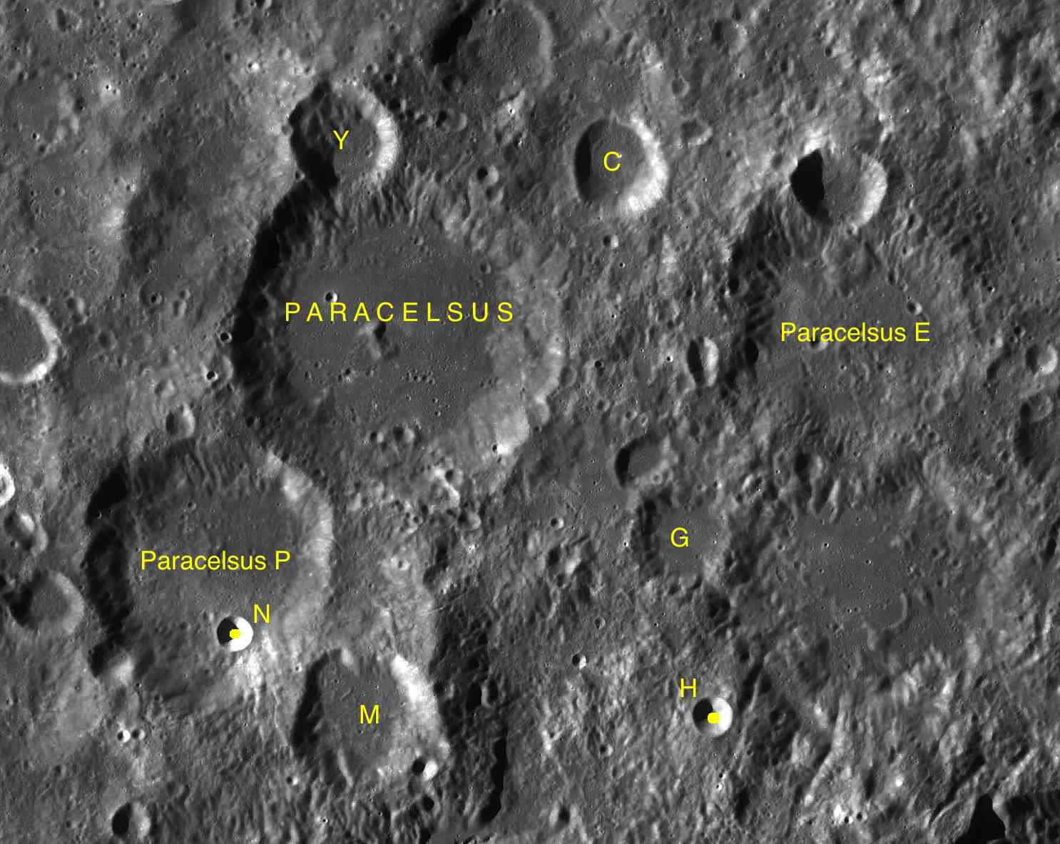 Part of the chart LAC-103 used for the presentation